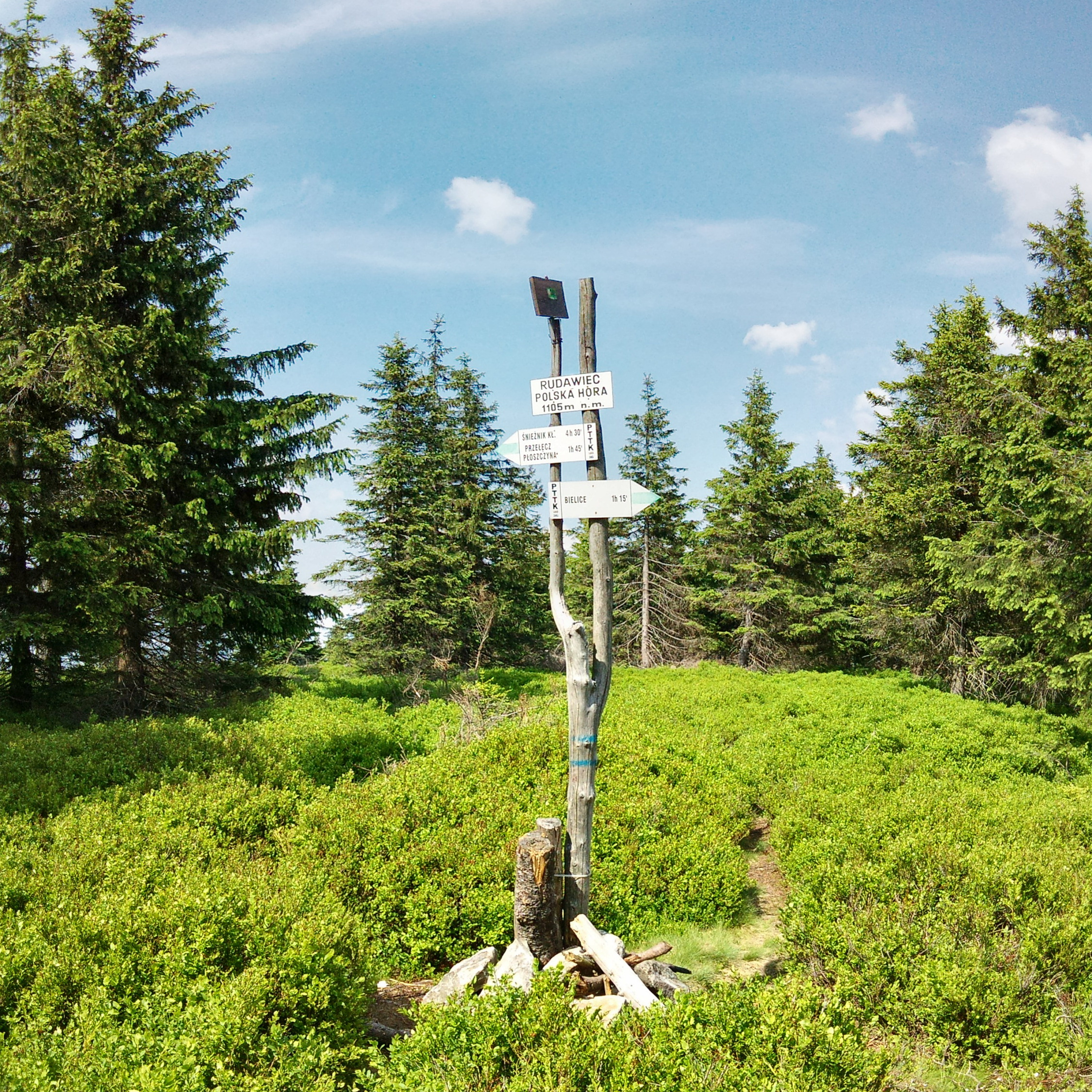 Summit of Polská hora in Golden Mountains (Rychleby)